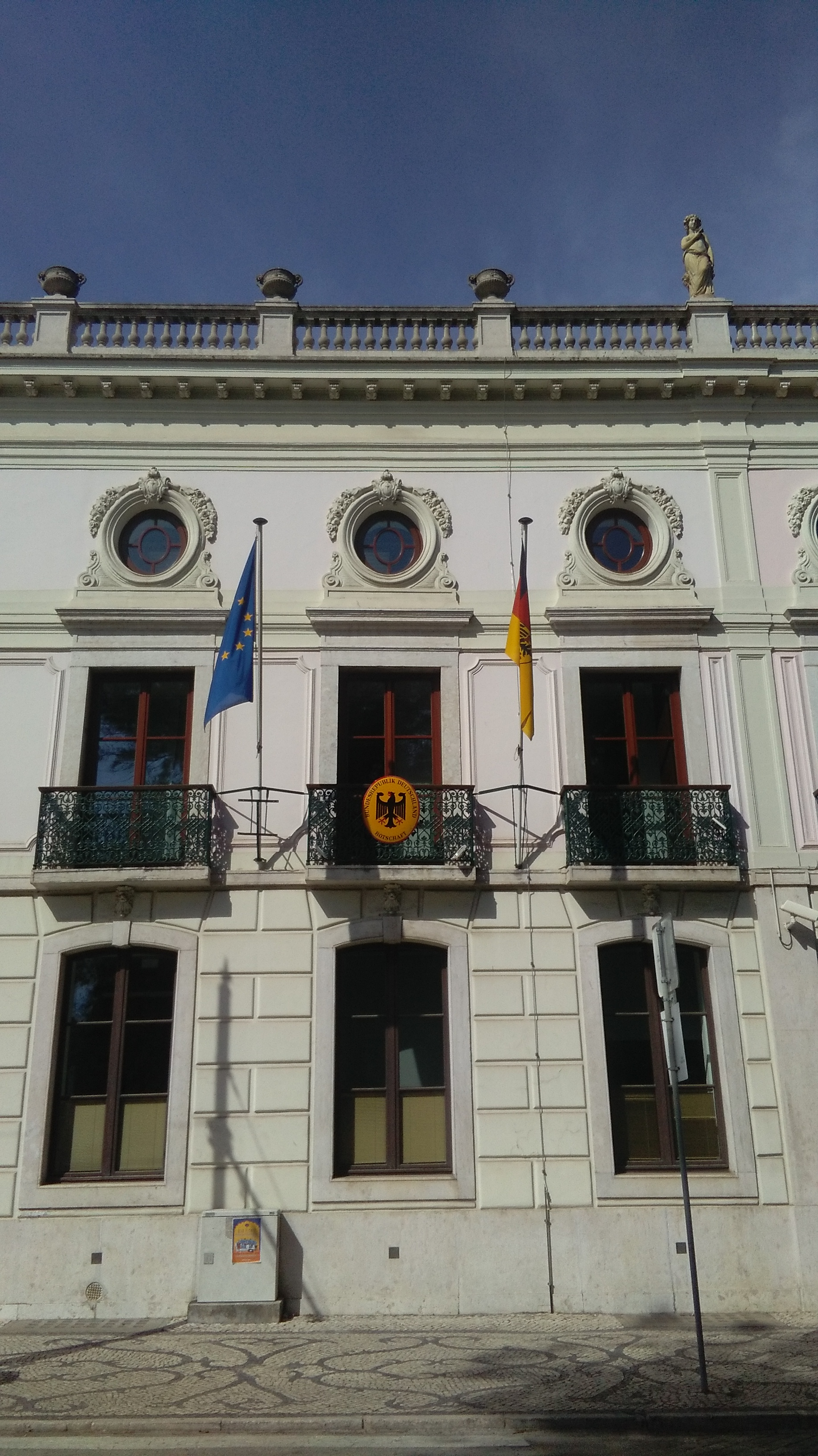 Detail of the building of the German embassy in Lisbon, Portugal.